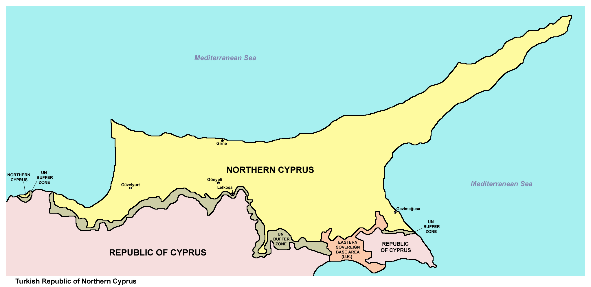 Map of the Turkish Republic of Northern Cyprus.